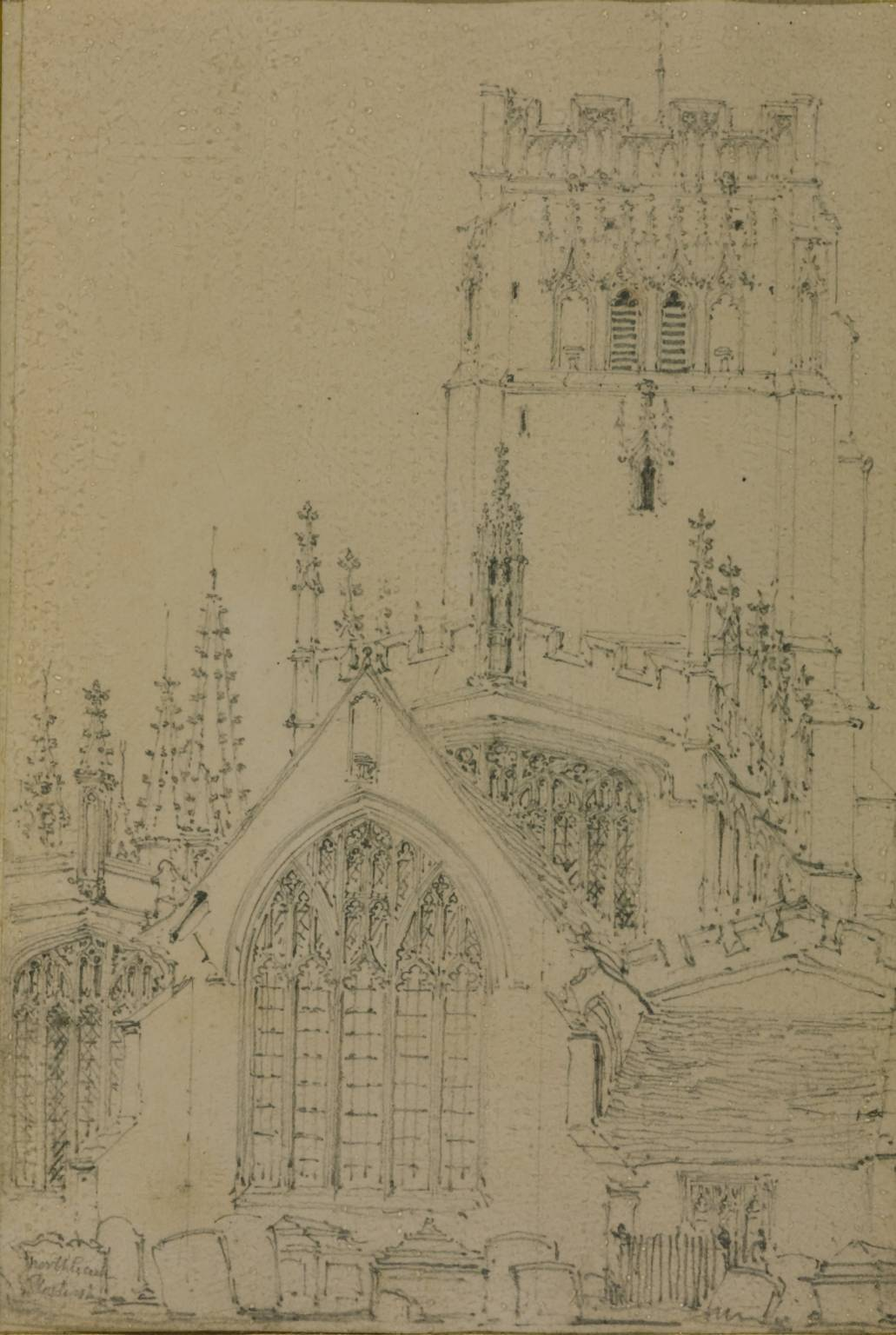 Drawing of Northleach Church, Gloucestershire, England.